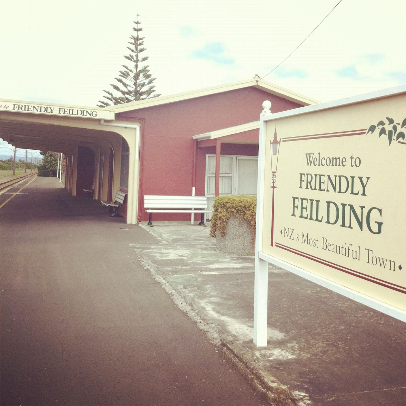 The Feilding Railway Station platform.